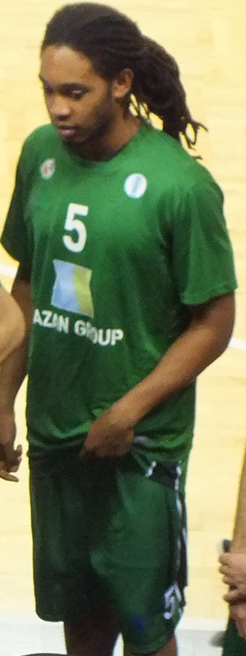 A Florida Gulf Coast University shooting guard. Apparently cute.